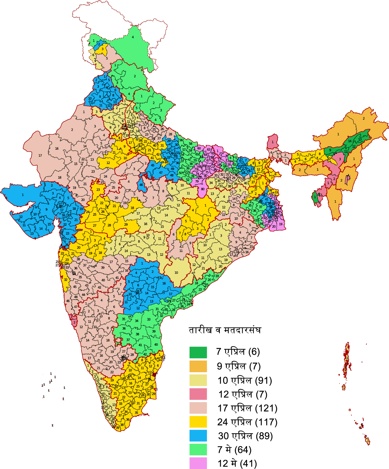 Election dates for the Indian general election, 2014.